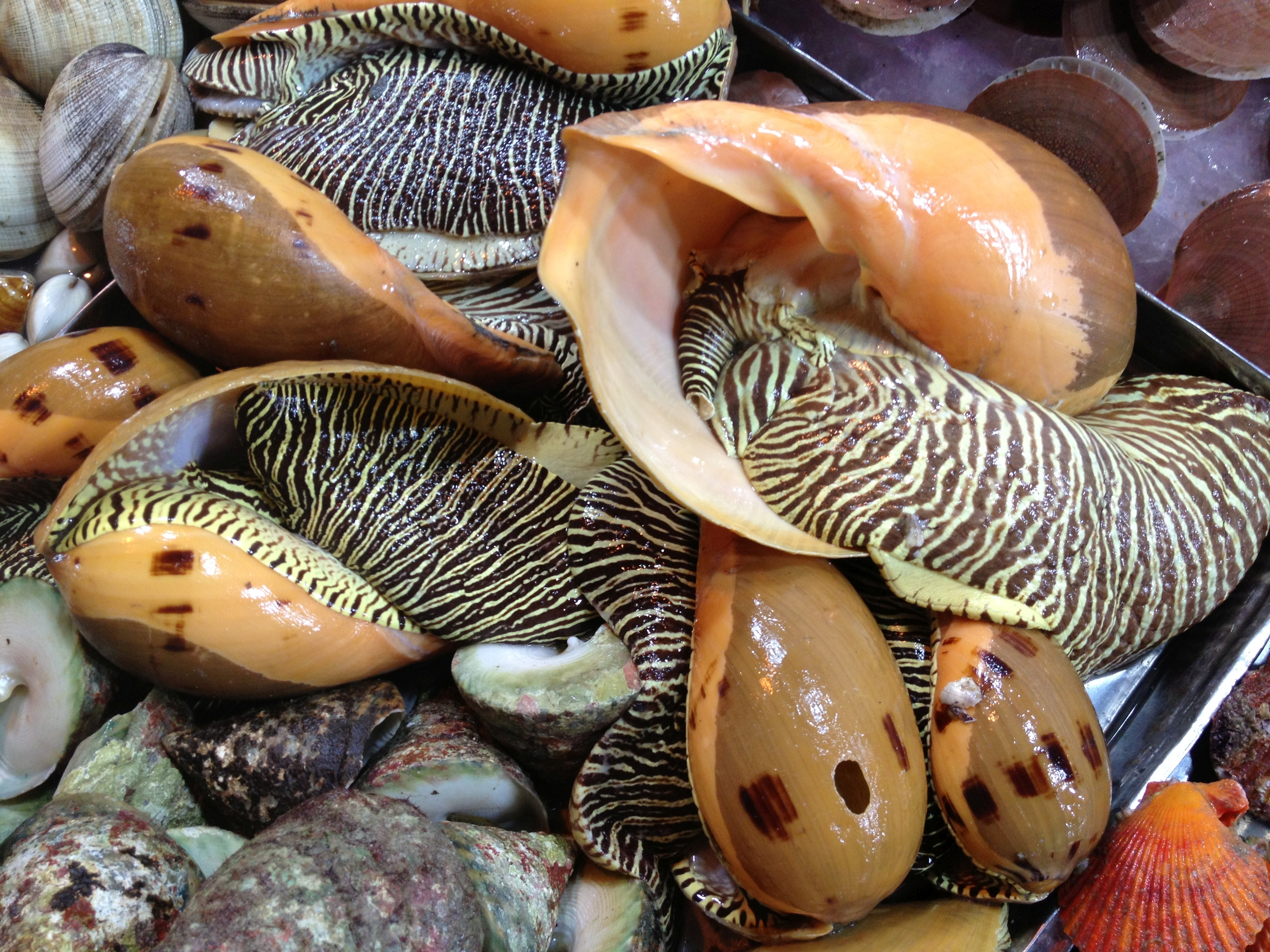 Melo melo on a market in Phú Quốc, Vietnam